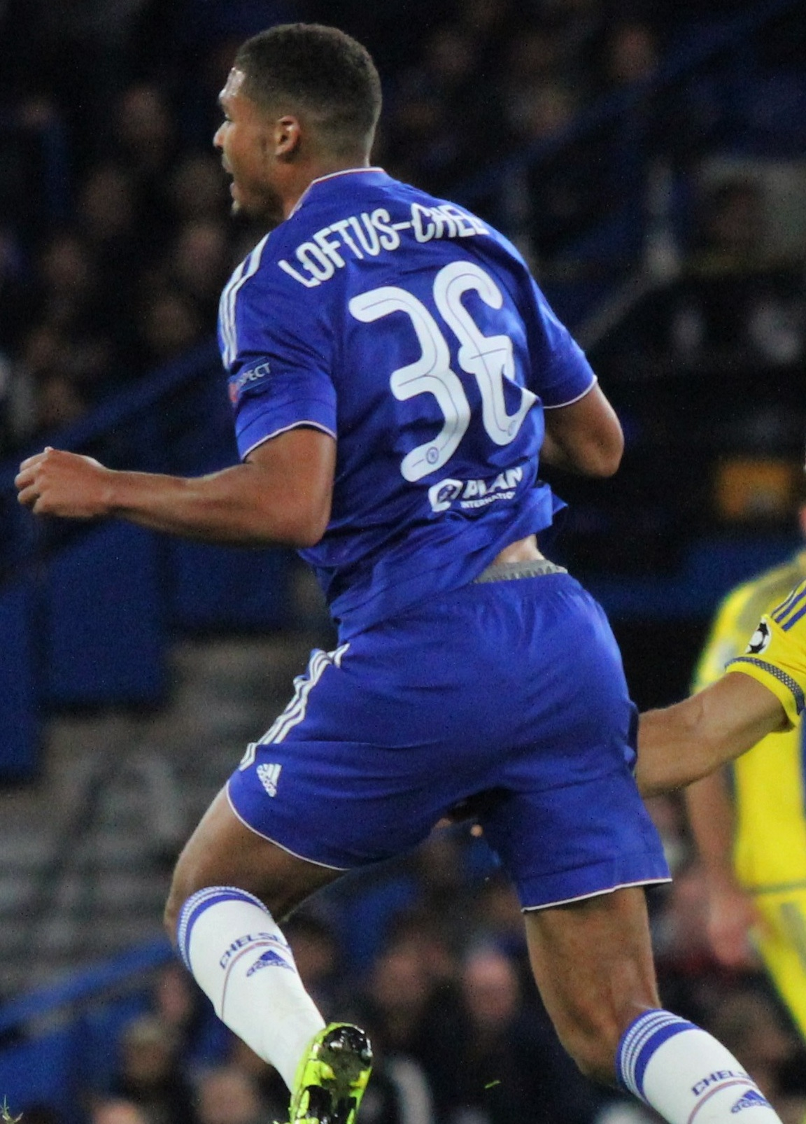 Tal Ben Haim I of Maccabi Tel-Aviv challenges Ruben Loftus-Cheek of Chelsea during the Champions League group stage game.